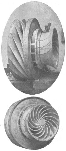 Monochrome photographs reproduced in a promotional brochure given by Henri Coanda to attendees viewing his Coanda-1910 aircraft at the 2nd Paris Flight Salon. The photographs depict the turbine component of the aircraft's novel propulsion device, one that used none of the usual propellers.